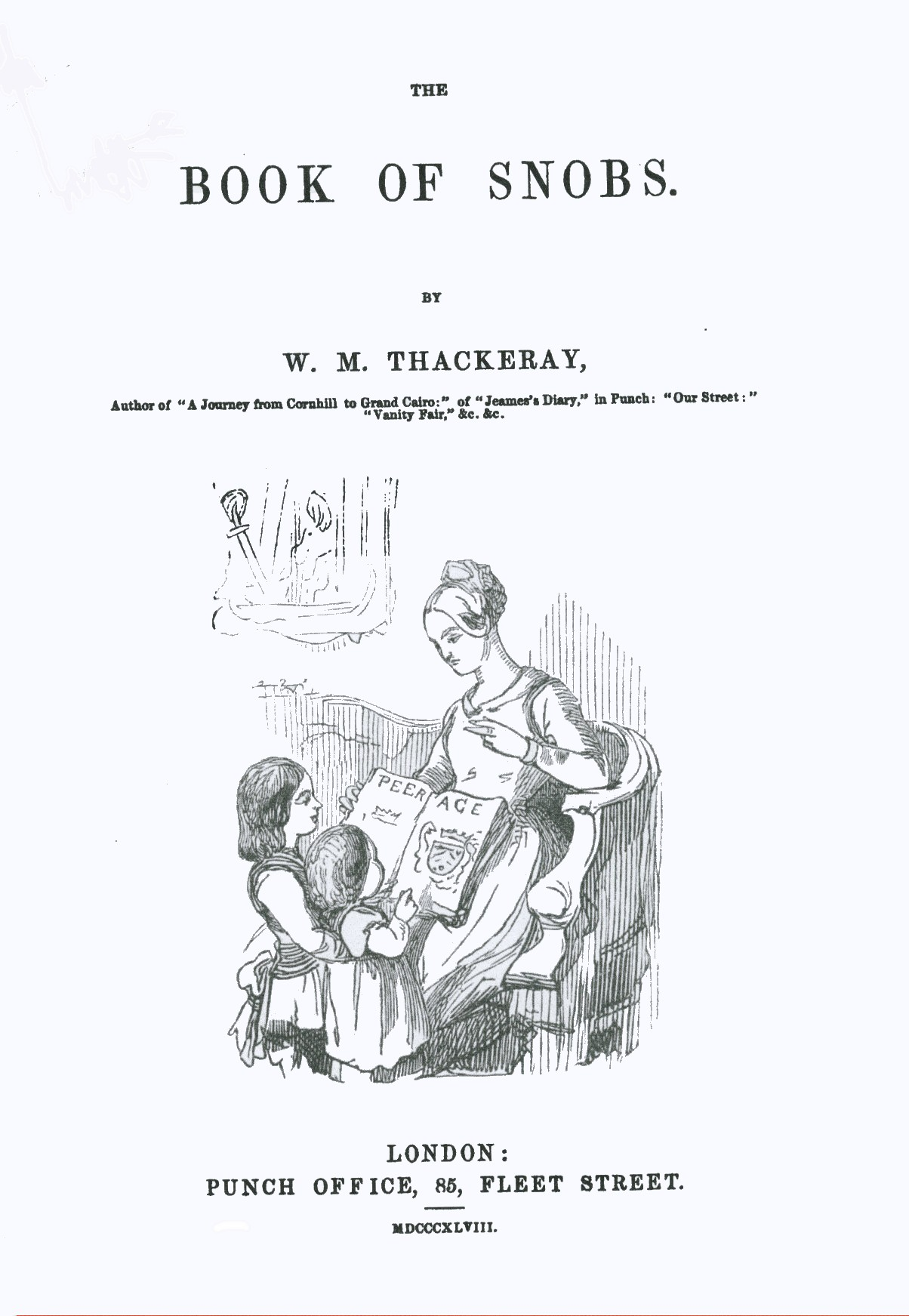 Engraving on wood by W. M. Thackeray himself, for the first edition of The Book of Snobs. Front cover.